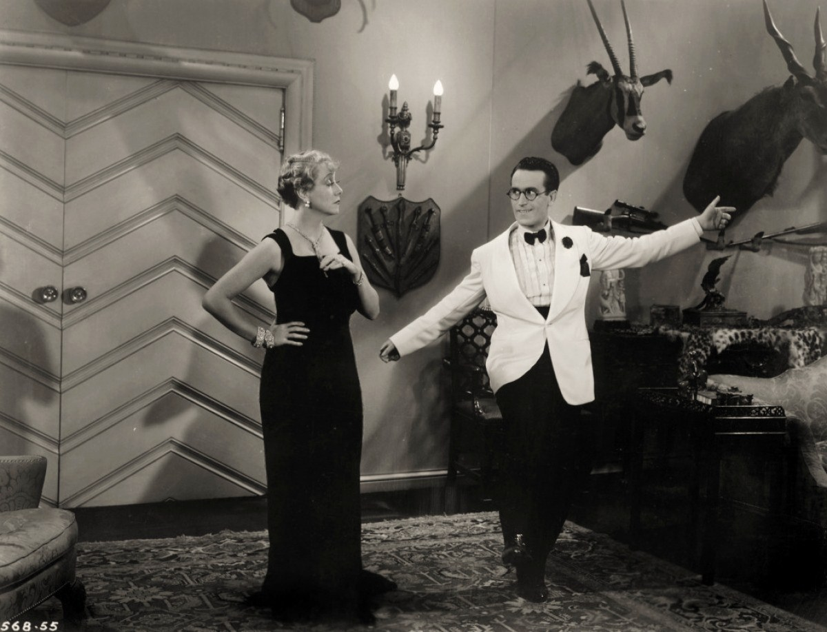 Marjorie Gateson & Harold Lloyd in The Milky Way - cropped screenshot